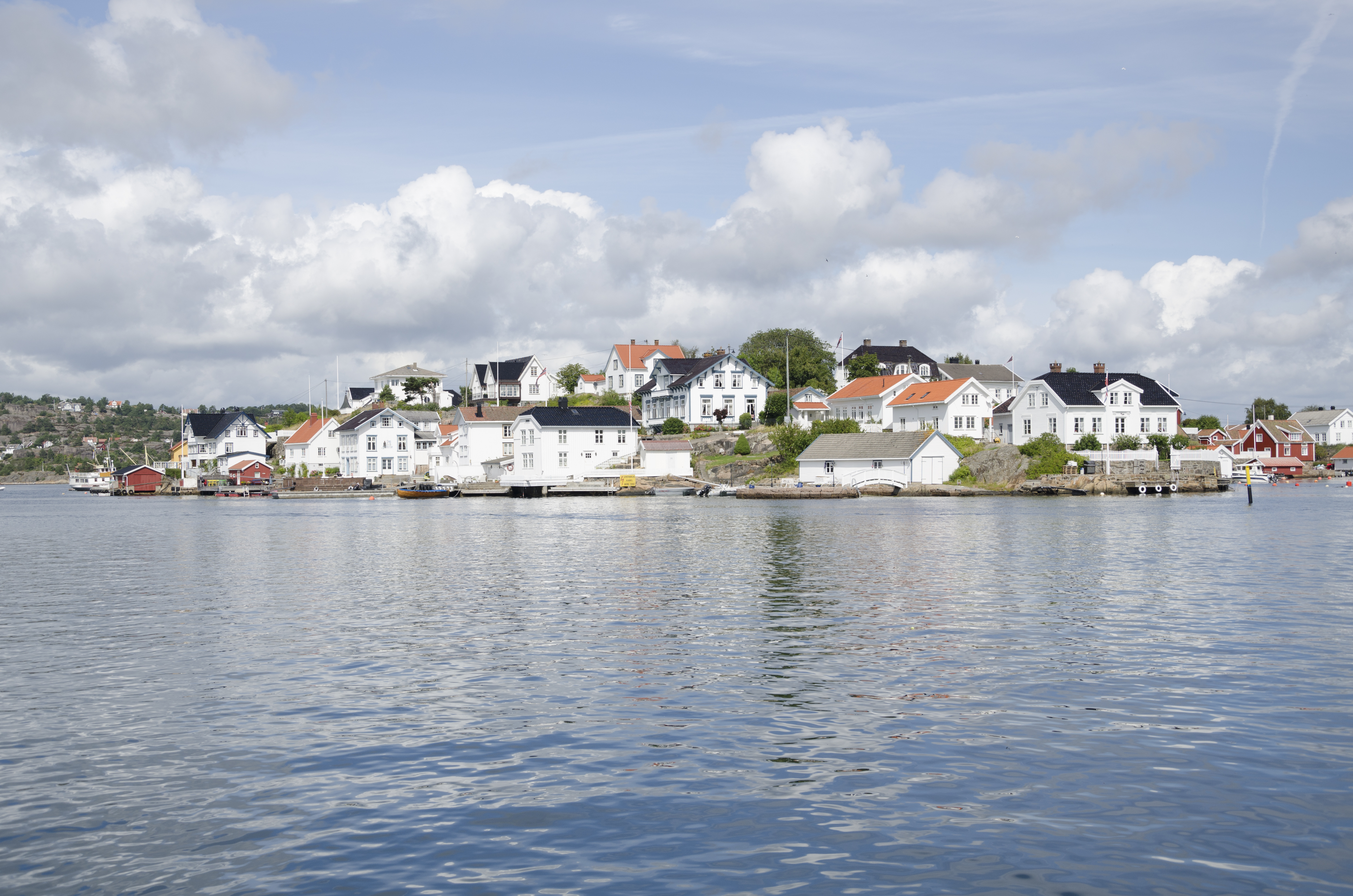 Houses at Holmen in Lyngør in august 2017.